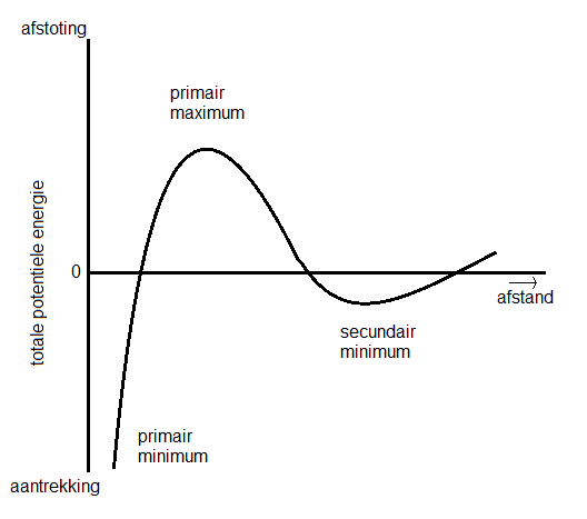 DLVO-theory in Dutch language, visual